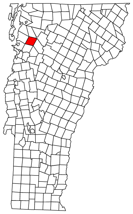 Description: Map of Vermont towns with Westford highlighted Source: Map created by Jared C. Benedict on 26 March 2004. Copyright: © Jared C. Benedict.